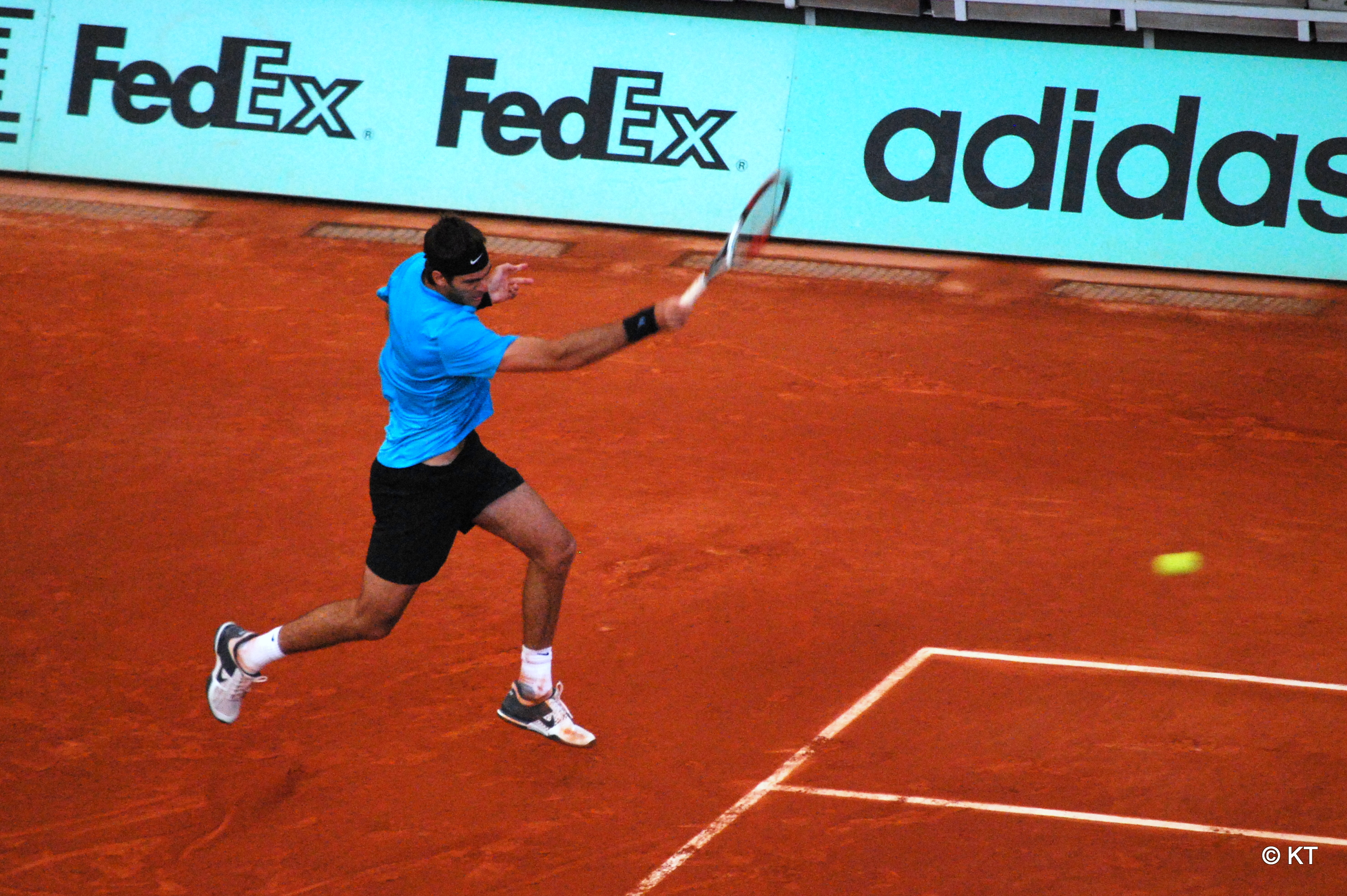 Juan Martin Del Potro during his 3rd round match with Novak Djokovic. Djokovic won 6-3, 3-6, 6-3, 6-2. Roland Garros 2011.